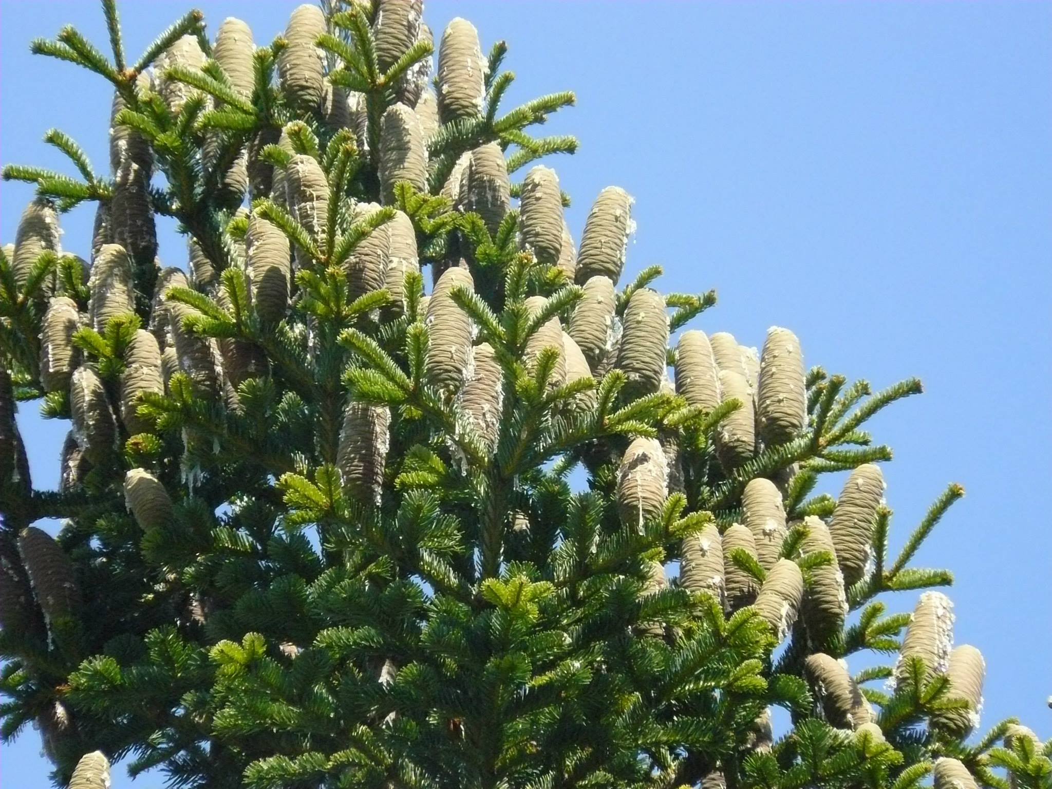 Abies cilicica (Cilician Fir), in the Horsh Ehden Nature Reserve, Lebanon.